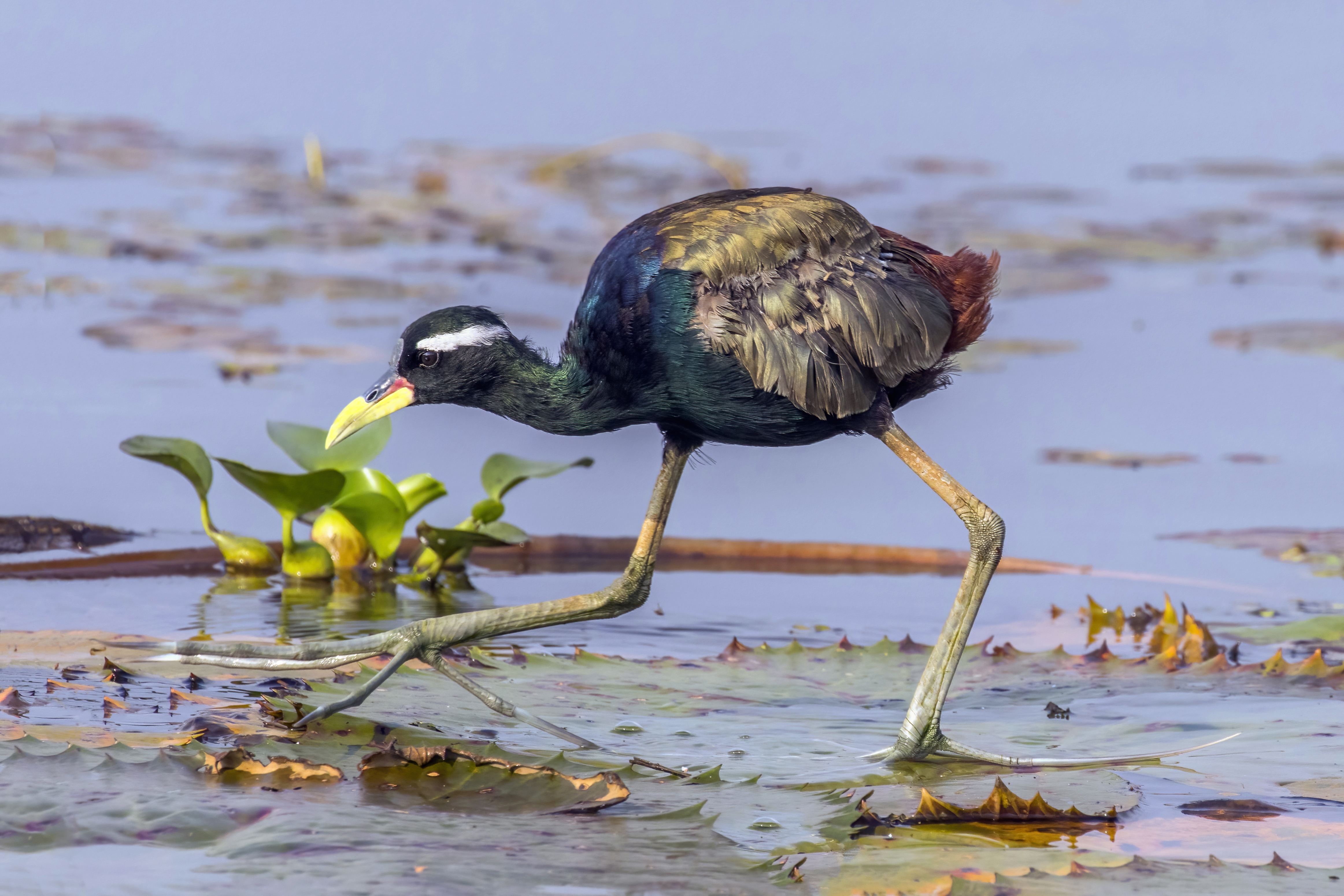 Bronze-winged jacana (Metopidius indicus), Vembanad Lake, Kerala